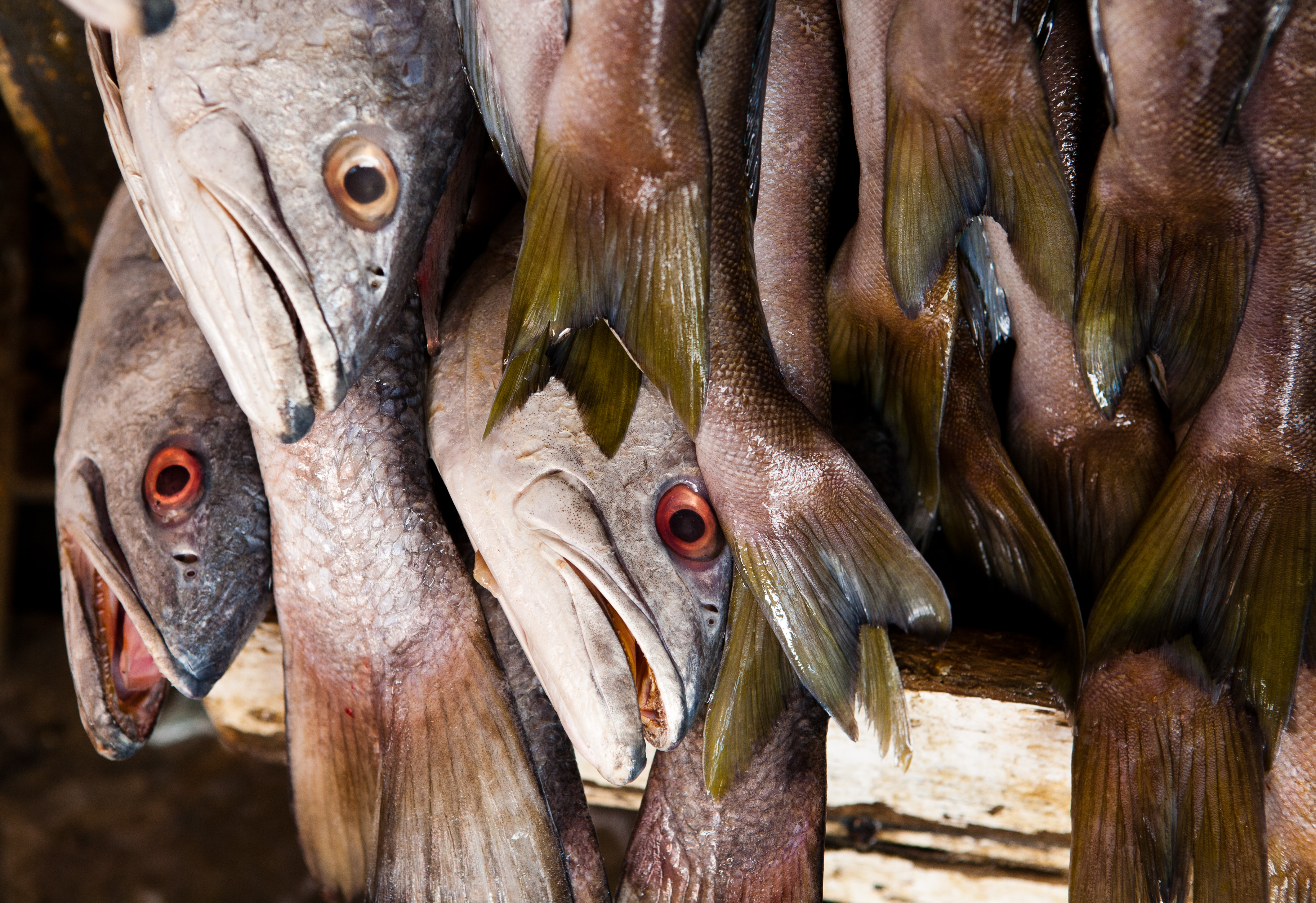 A catch of White sea bass at Ensenada fish market, Baja California, Mexico